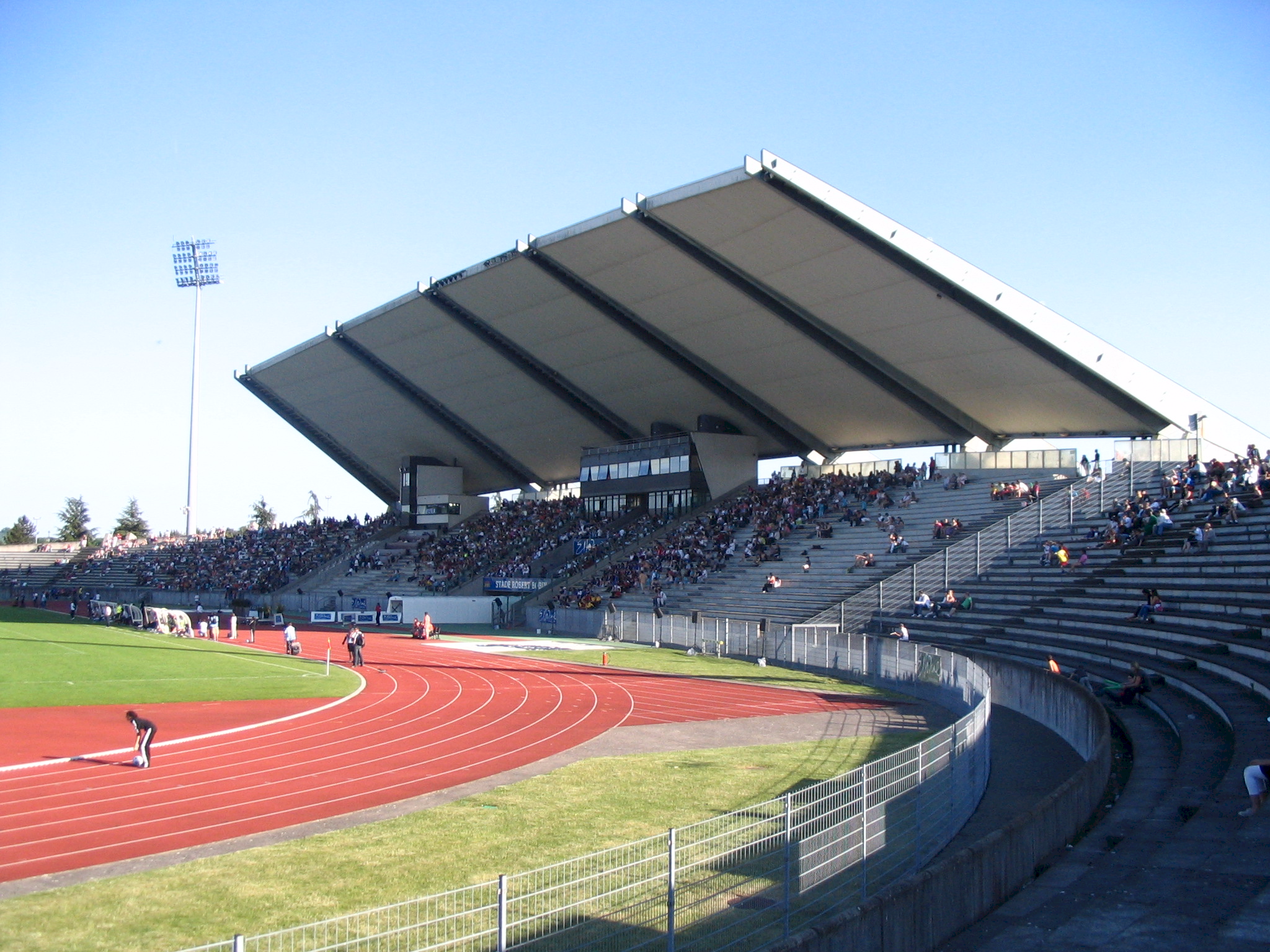 Stade Robert-Bobin (Evry-Bondoufle, France)